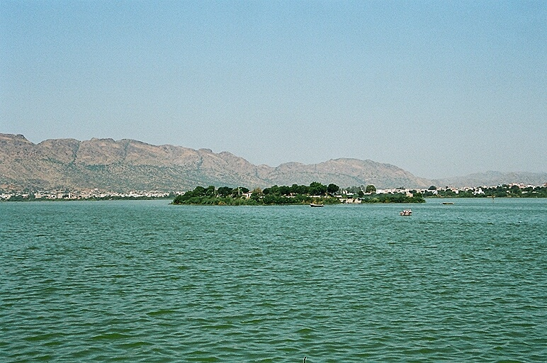 This is a picture of Anna Sarovar, Ajmer by Debabrata Ghosh, Birati, Kolkata 700051